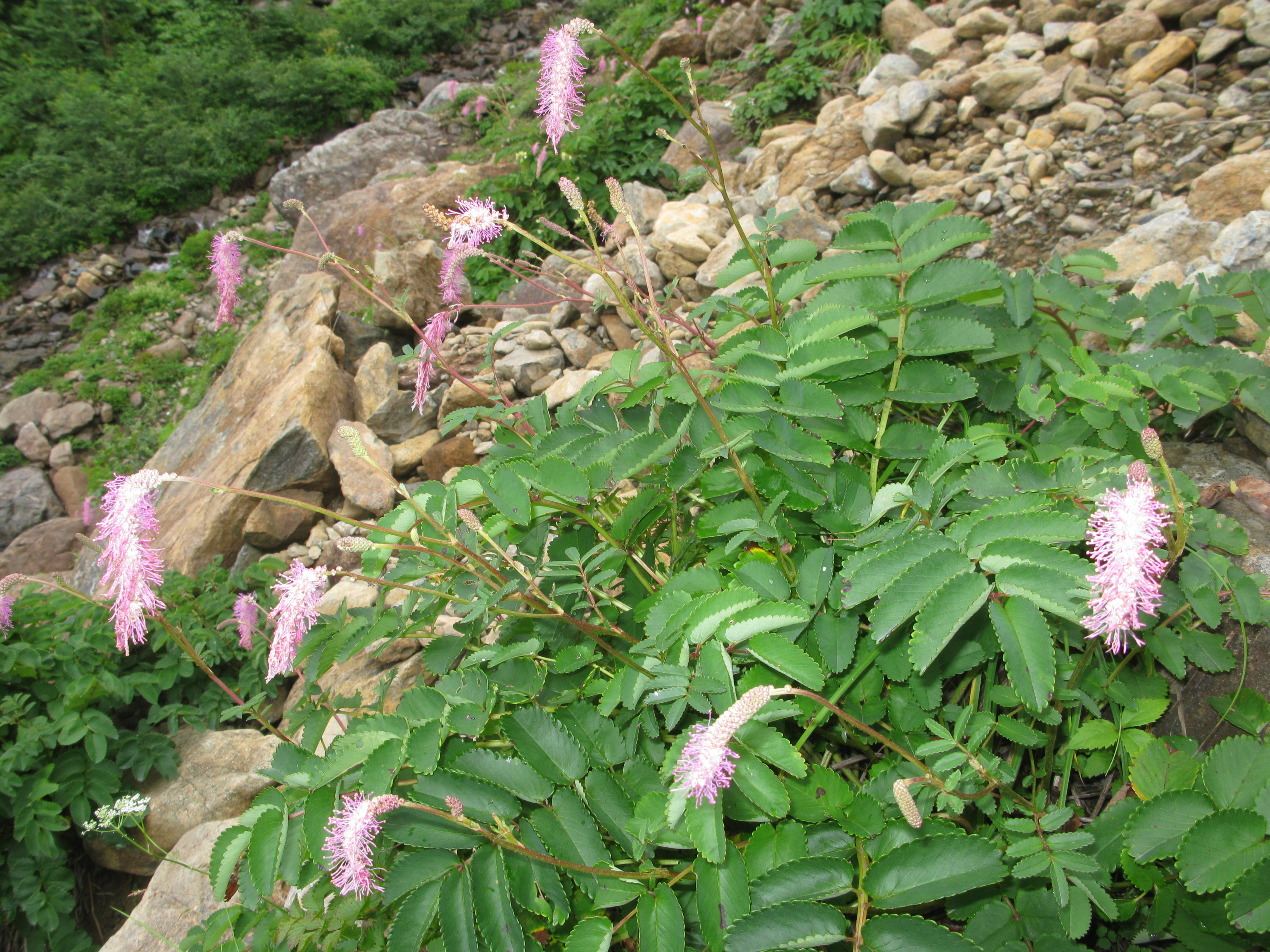 Sanguisorba obtusa, Mount Hayachine, Iwate pref., Japan